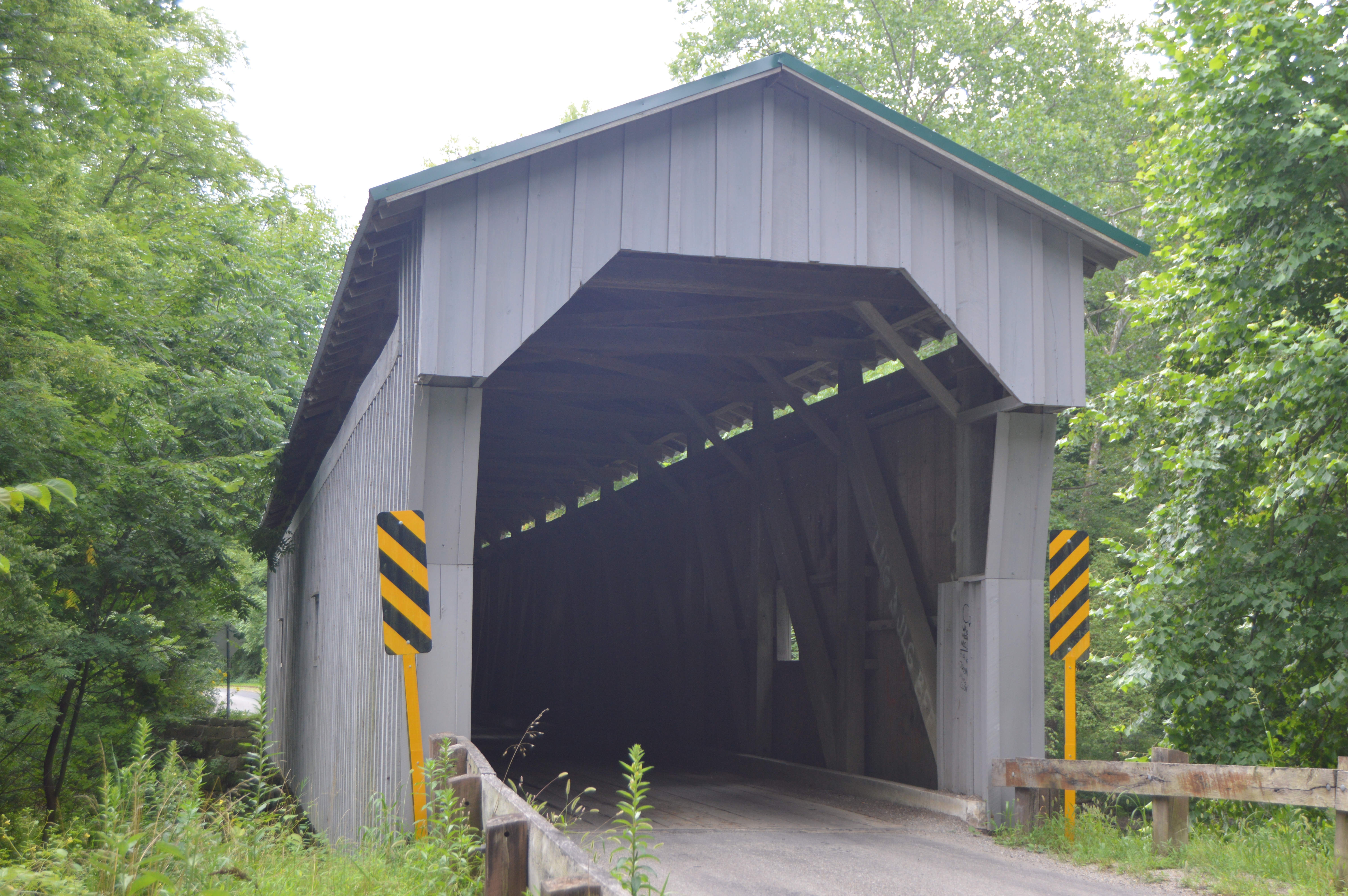 Western portal of the Gregg Mill Covered Bridge, which carries Frampton Road over Wakatomika Creek in Fallsbury Township, Licking County, Ohio, United States. It was built in 1881.